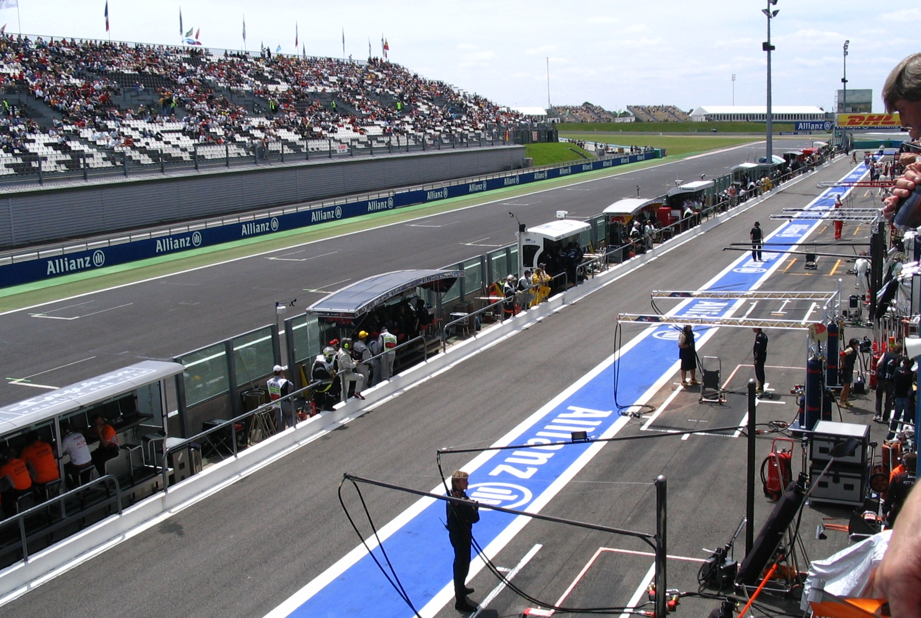 Circuit de Nevers Magny-Cours, France, corrected by User:NSX-Racer